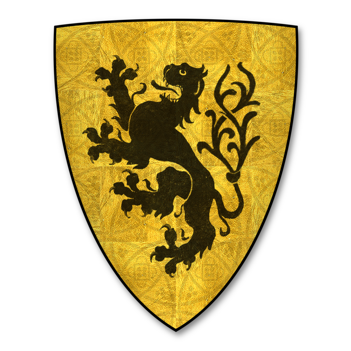 Coat of arms of Adam de Welles, as blazoned in the Caerlaverock Poem (K-048: "Adam de Welle") "Jaune o un noir lÿoun rampant Dont la coue en double se espant." Arms: Or, a lion rampant queue forchée sable.